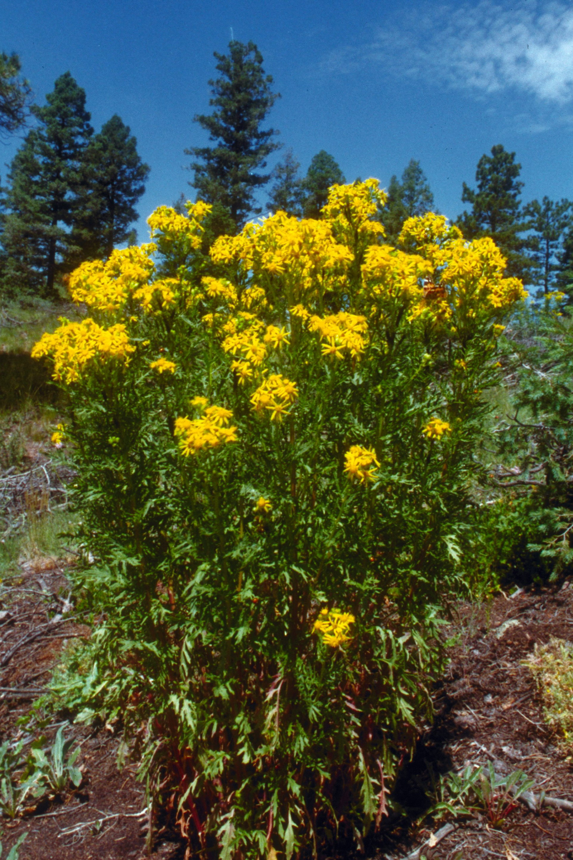 Senecio eremophilus Richards (desert ragwort). Pike and San Isabel National Forests, south-central Colorado, United States.